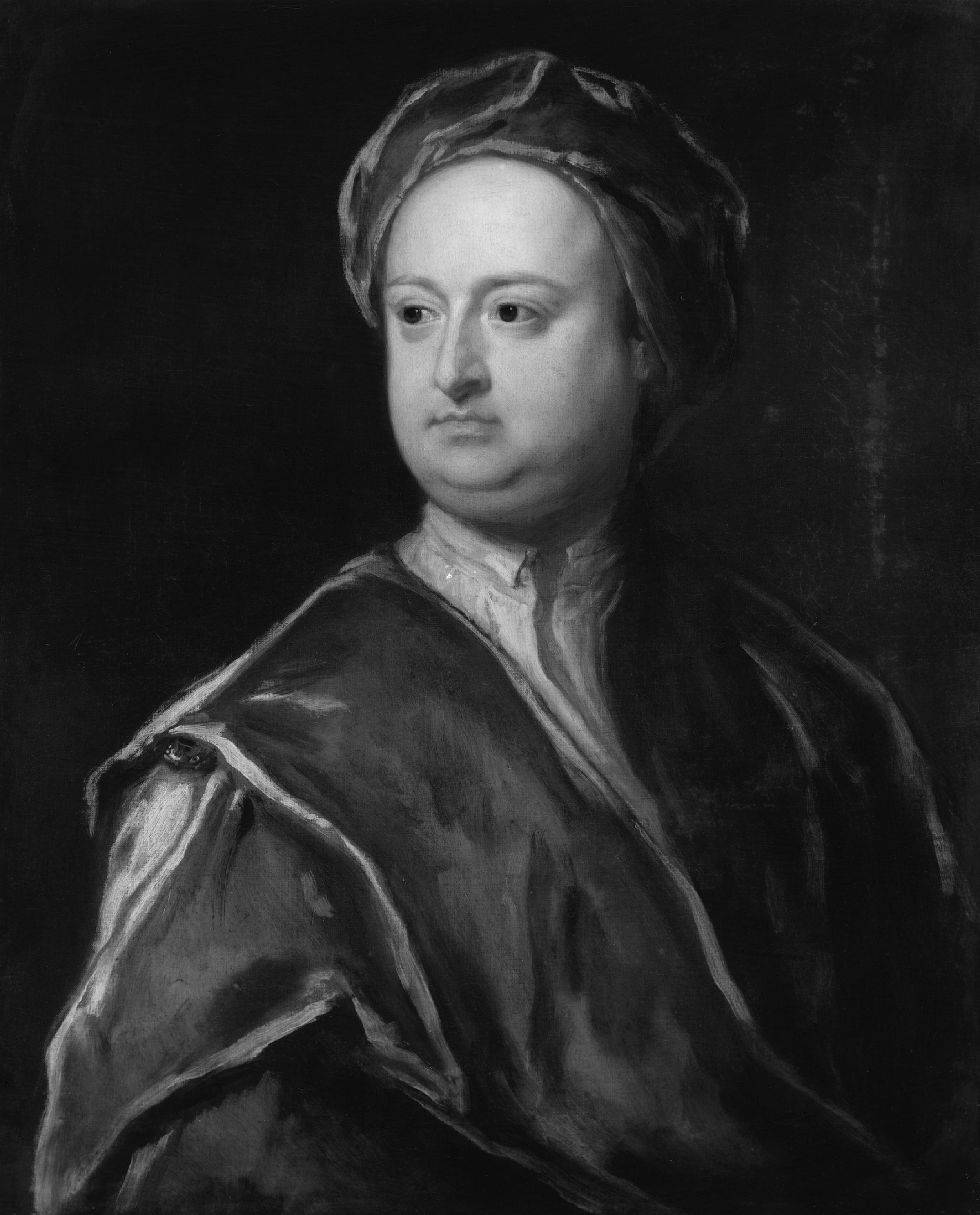 Edward Harley, 2nd Earl of Oxford, by Jonathan Richardson (died 1745). All images in this batch have been confirmed as author died before 1939 according to the official death date listed by the NPG.